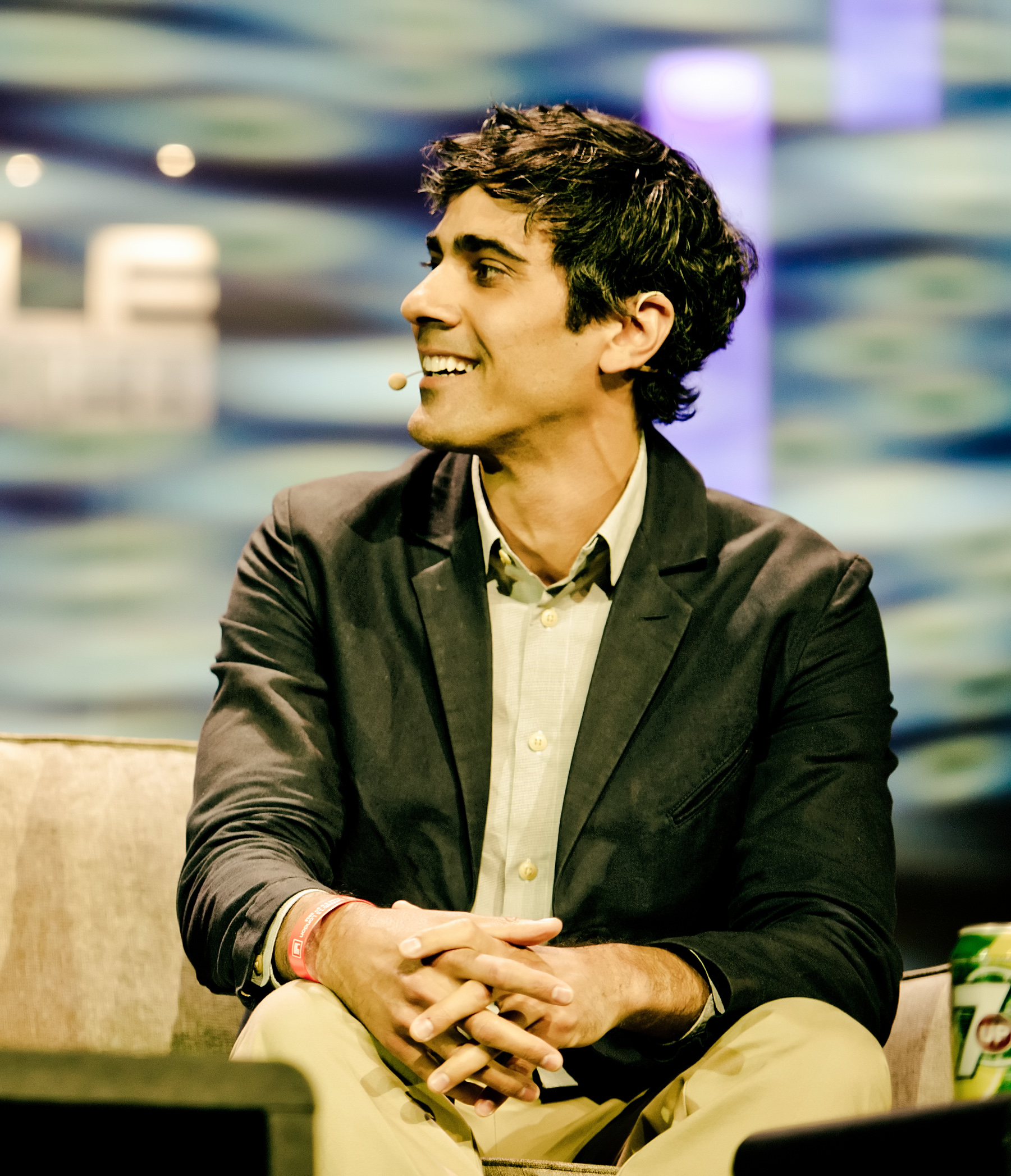 Jeremy Stoppelman at the 2013 LeWeb conference